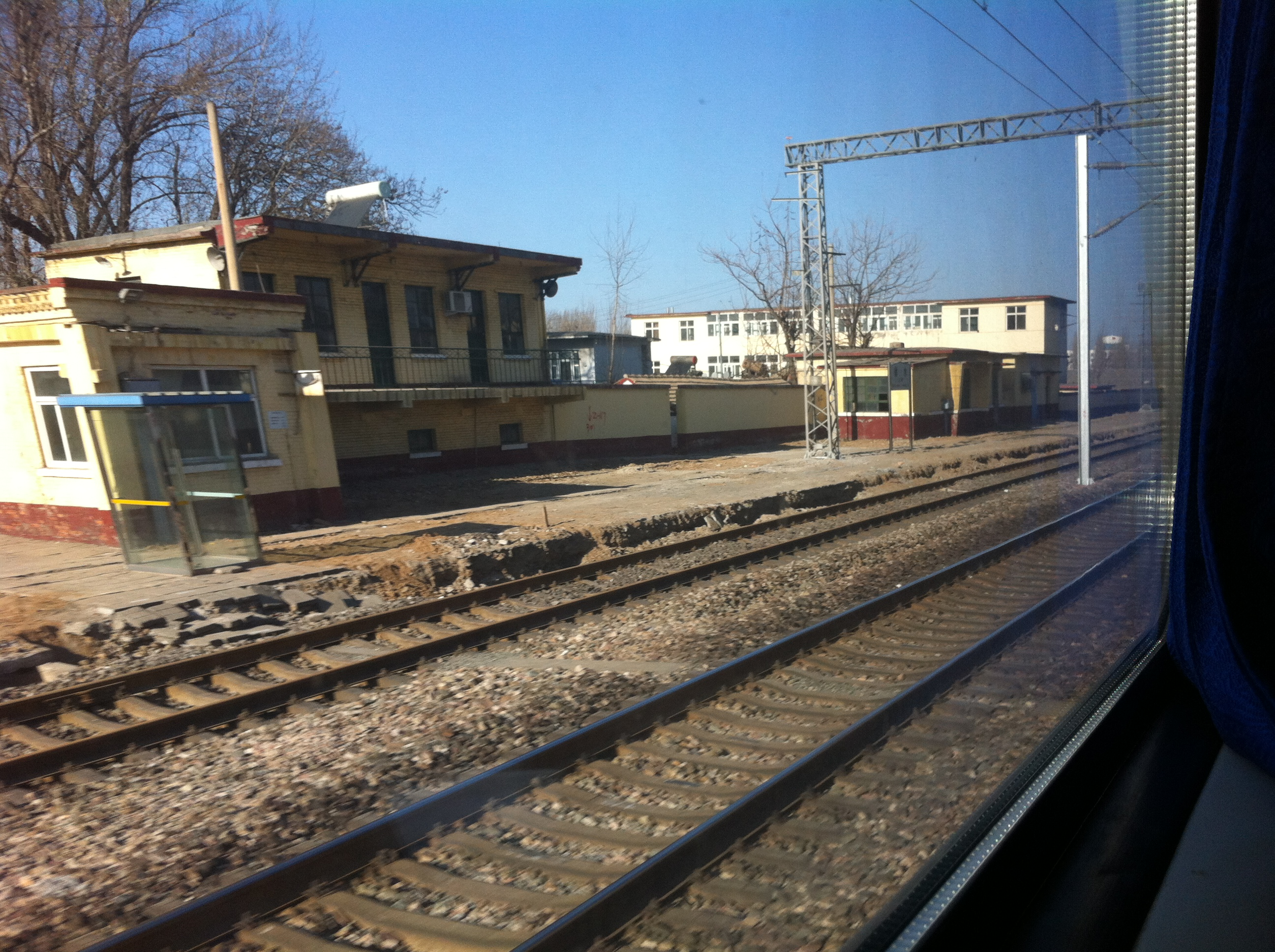 What happened to the platform?